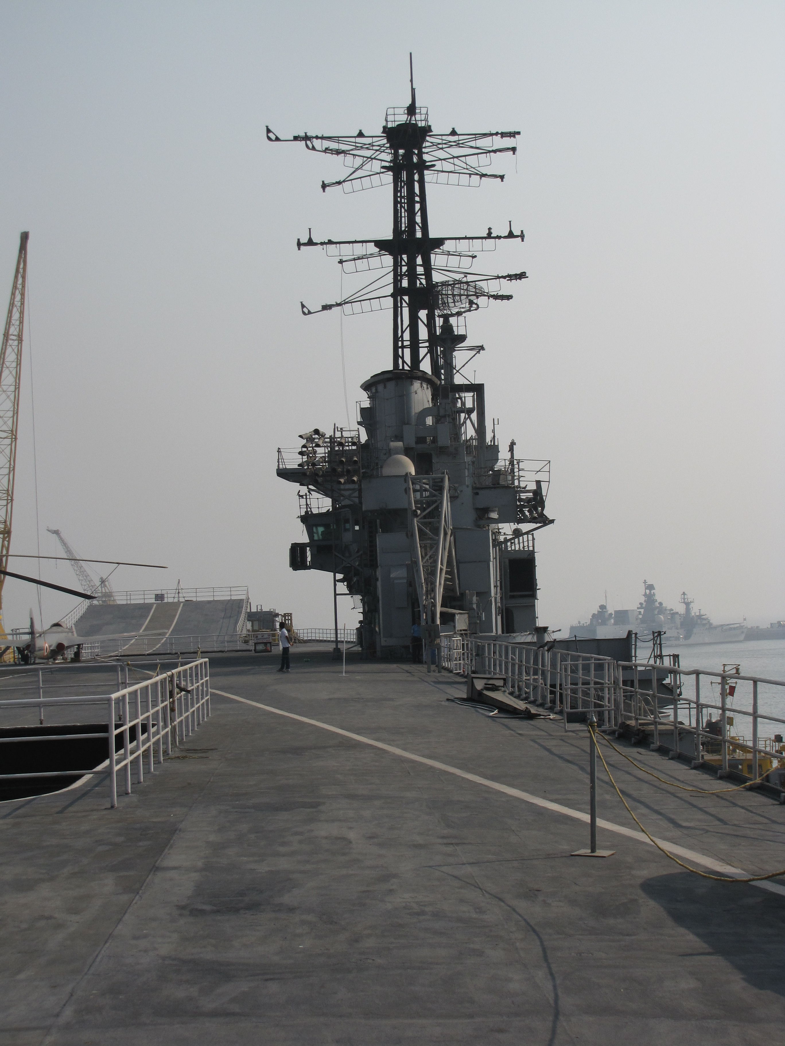 The "island" (superstructure) of the INS Vikrant, decommissioned aircraft carrier of the Indian Navy.